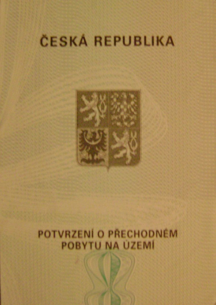 Cover of the Temporary Residence Permit of the Czech Republic